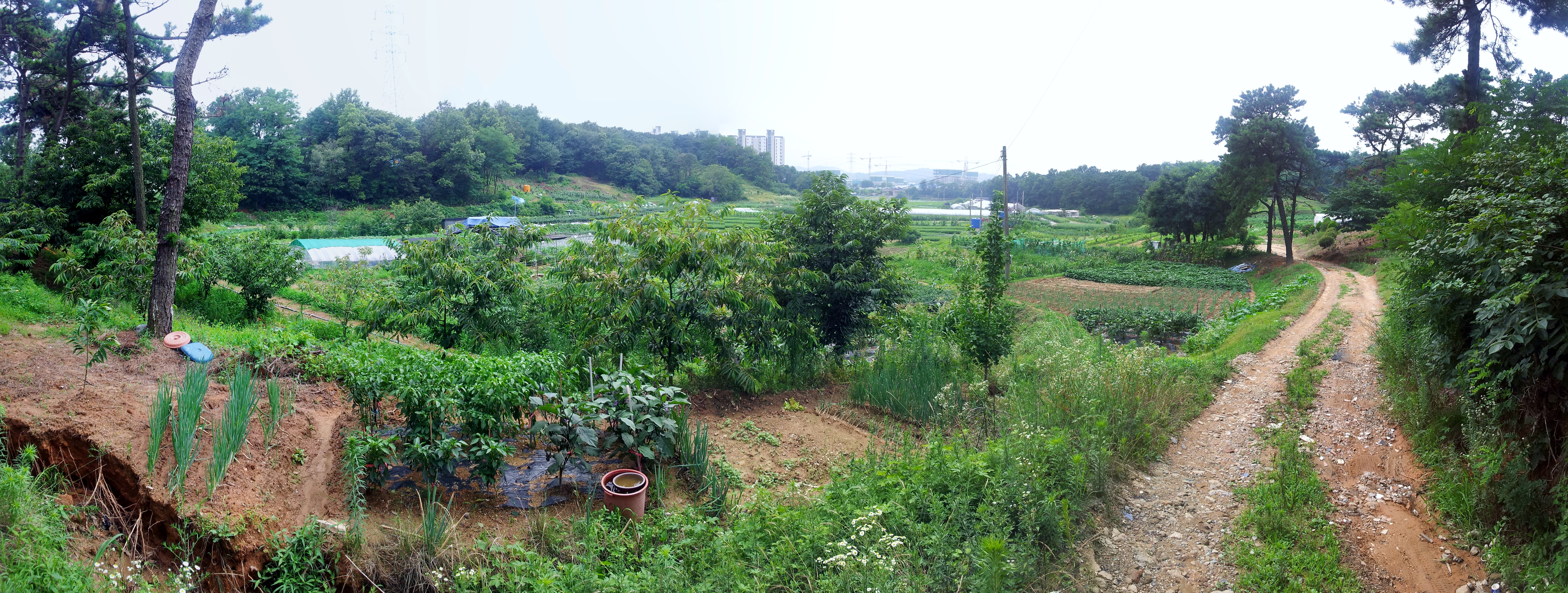 Looking west towards Wangsong Reservoir from the Ipbuk-dong/Yuljeon-dong boundary